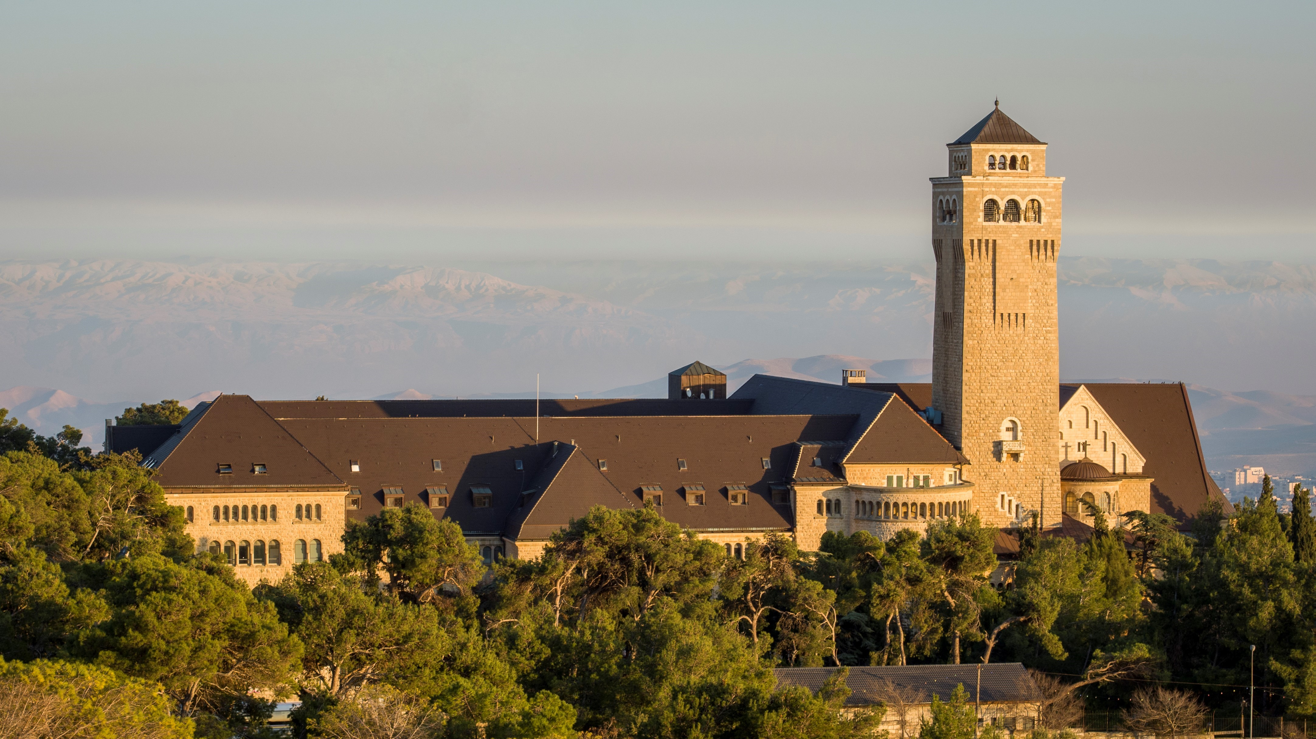 Auguste Victoria Compound is a church-hospital complex located on the northern side of Mount of Olives in East Jerusalem.